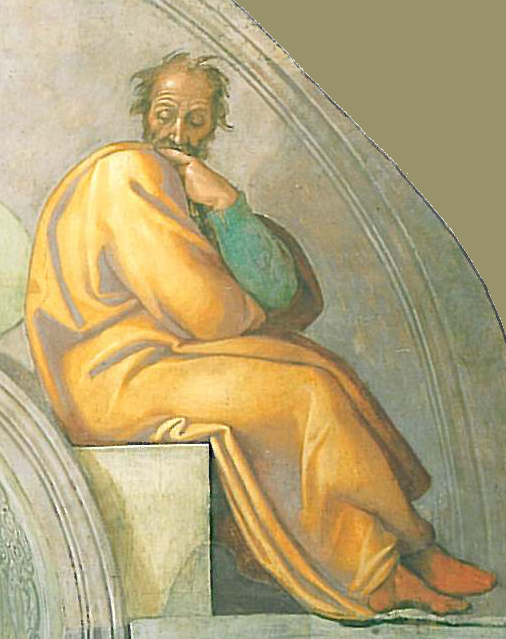 This is a cropped version of Image:Asor und Zadoch (Michelangelo).jpg. The white background has been filled with brown color and the file association has been converted to png. The person in this image is widely considered as Michelangelo Buonarroti himself.